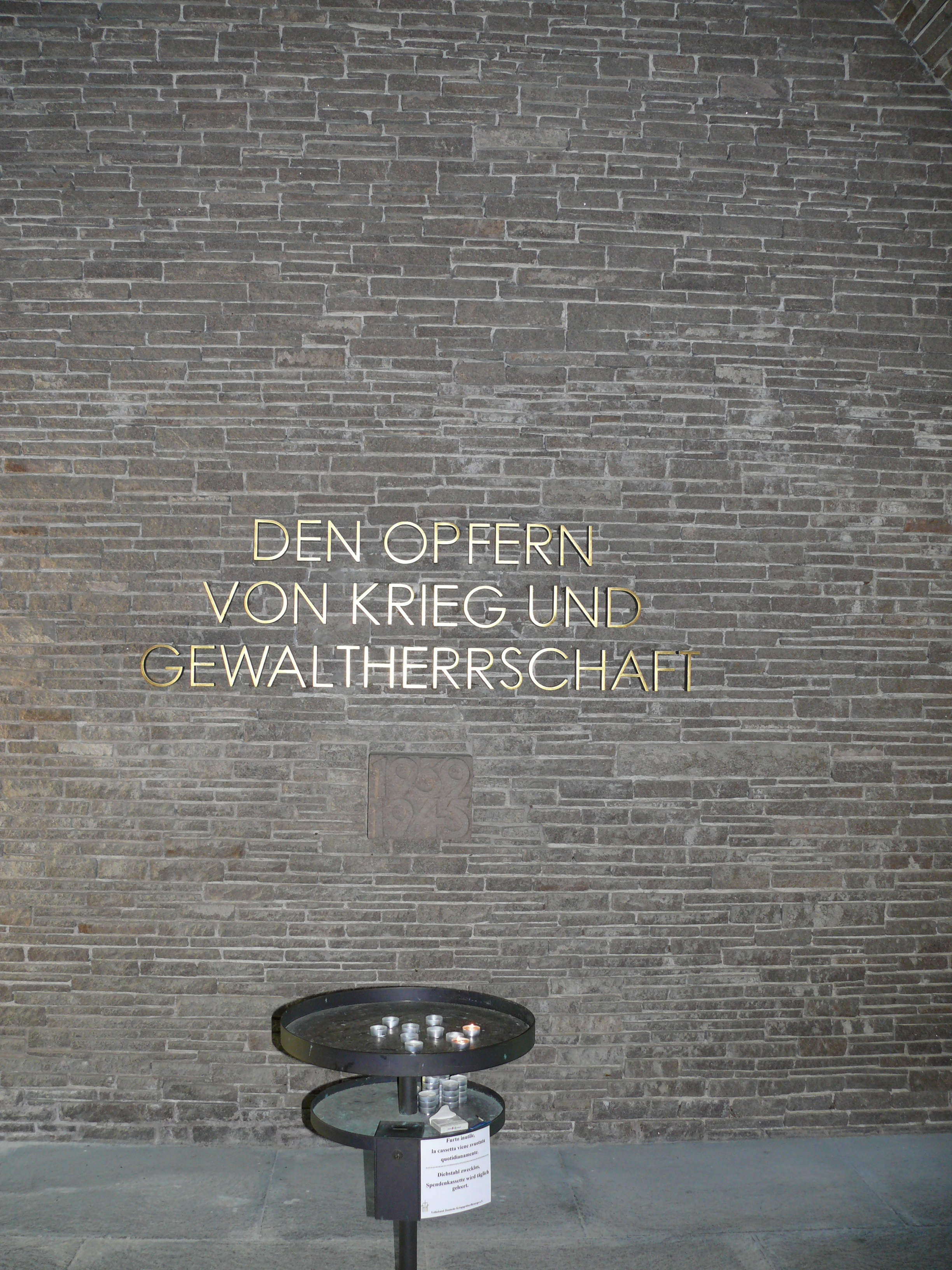 German War Cemetery Costermano (Italy)